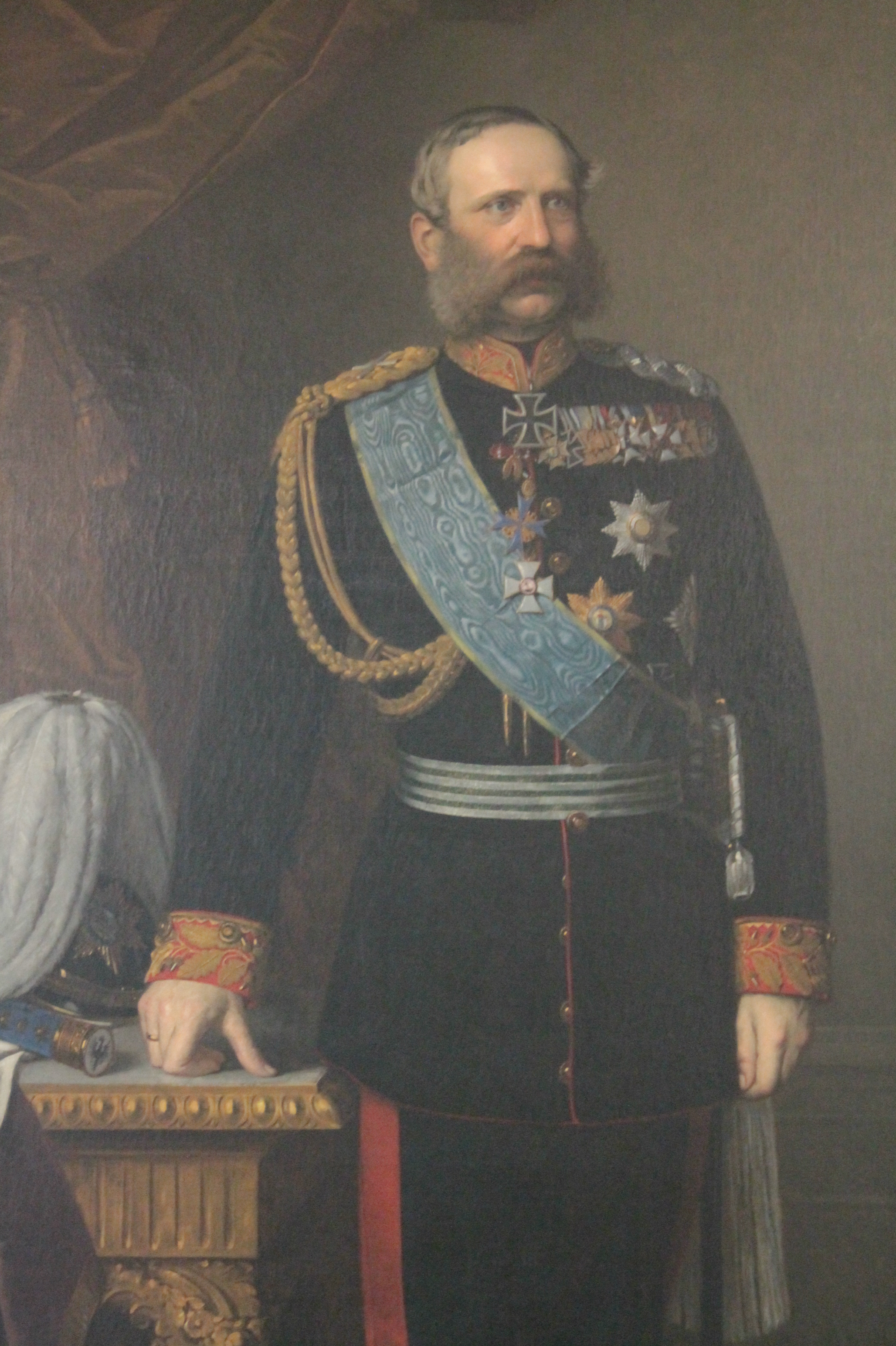 Albert of Saxony in 1878 by Alfred Diethe